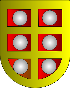 Arms of the Portuguese Melo family, counts and Dukes of Ficalho. Made by JSobral